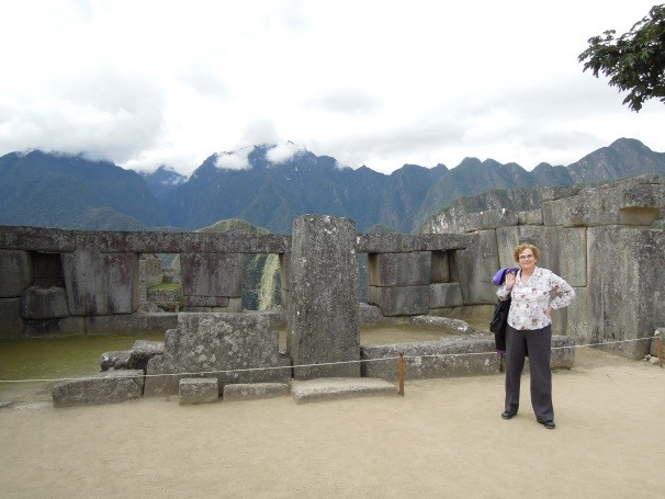 Czech Archeologist Eva Farfanova Barriosova in Peru